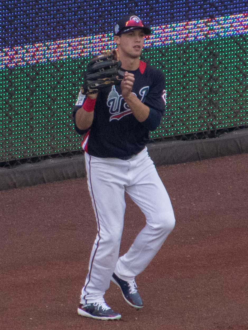 Jo Adell (left) and Alex Kirilloff in the outfield during the 2018 MLB All-Star Futures Game